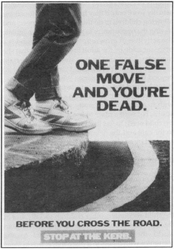 Campaign „One false move and you’re dead.“